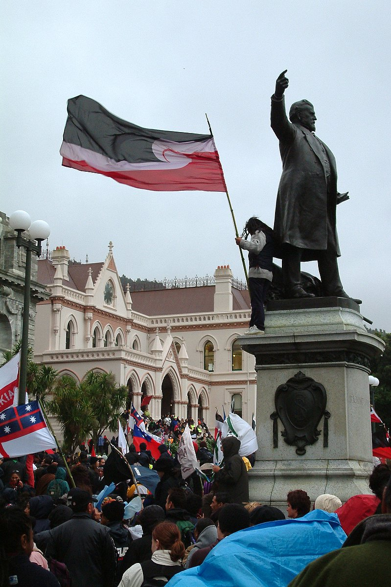 Protester with tino rangatiratanga flag at hikoi during the New Zealand foreshore and seabed controversy. The statue is the Seddon Statue outside the New Zealand Parliament, New Zealand Historic Places Trust Register number: 230.